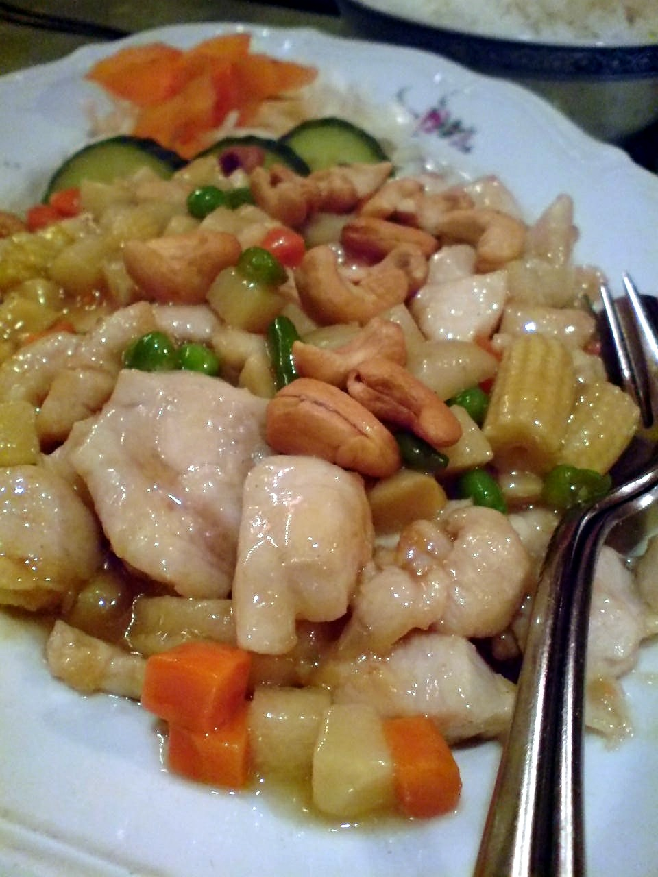 Chicken with Peanuts